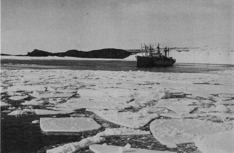 Private John R. Towle (T-AK-240) underway in pack ice near Antarctica, date unknown. US Navy photo from "All Hands" magazine, December 1973.